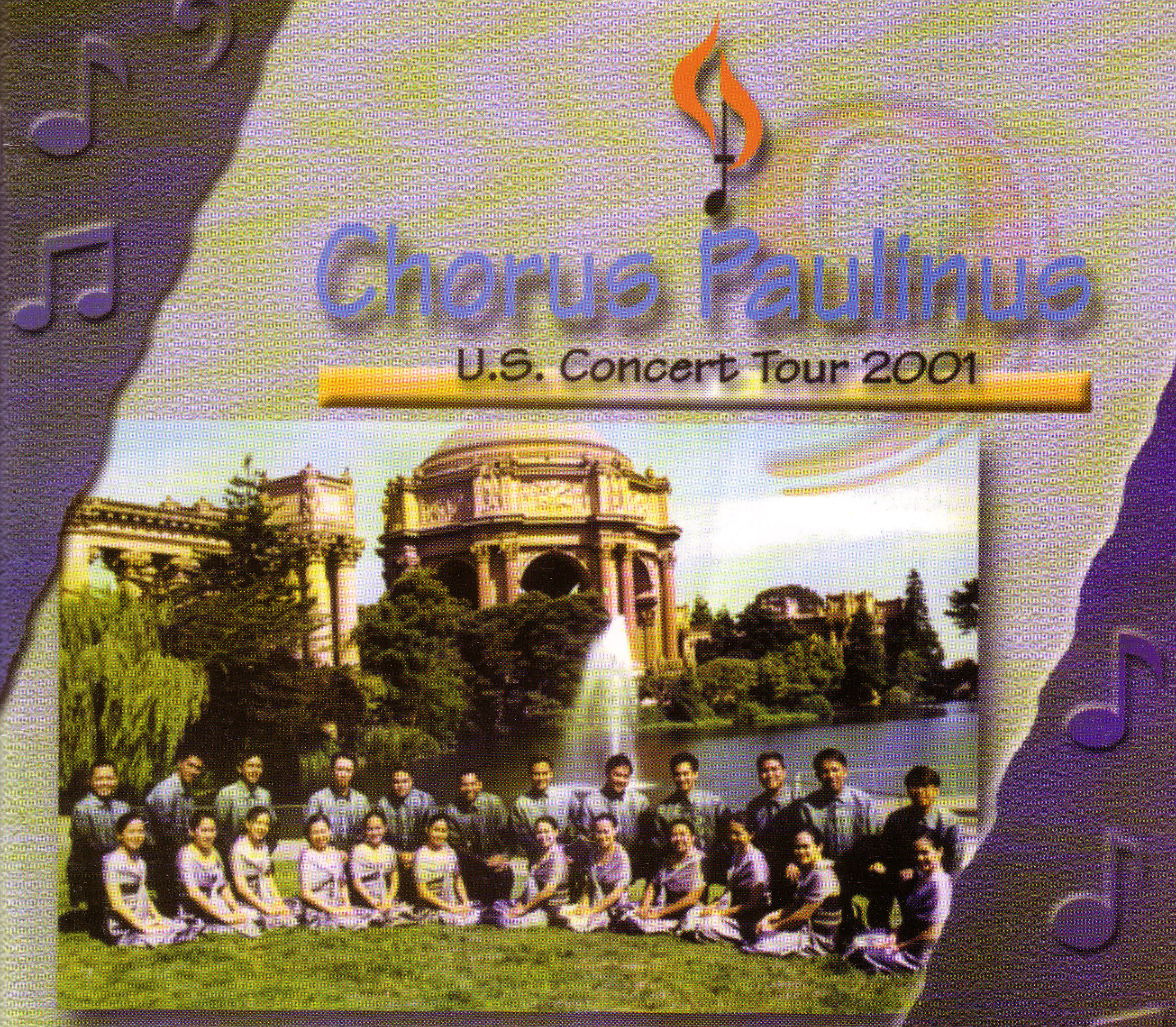 Souvenir Program of the Chorus Paulinus